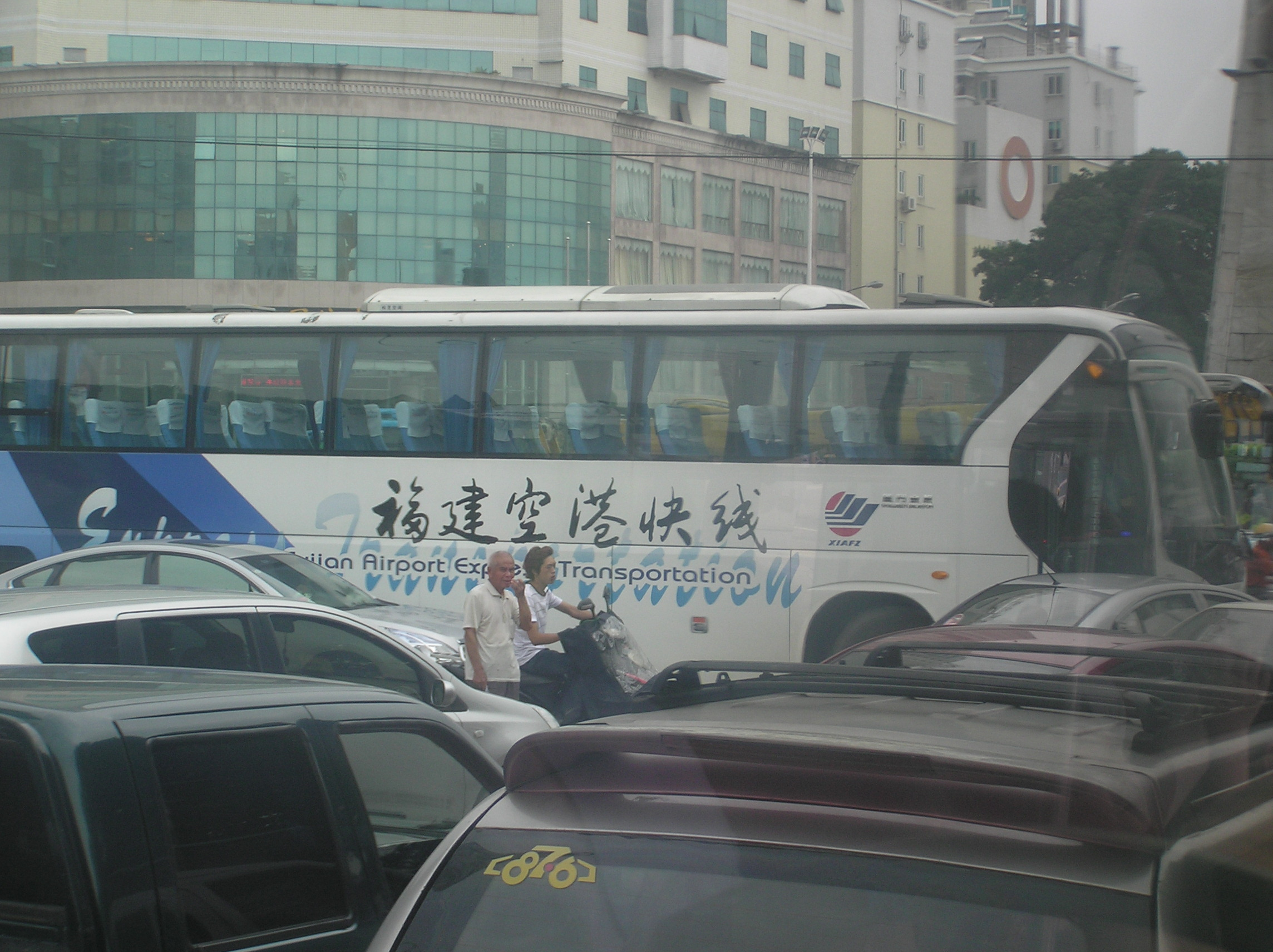 the shuttle bus for Fuzhou international airport.